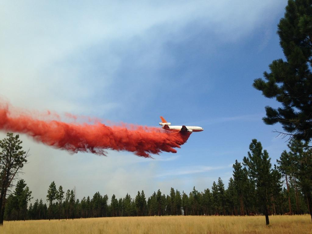 DC-10 air tanker dropping retardant on Milli Fire near Sisters, Oregon; August 2017